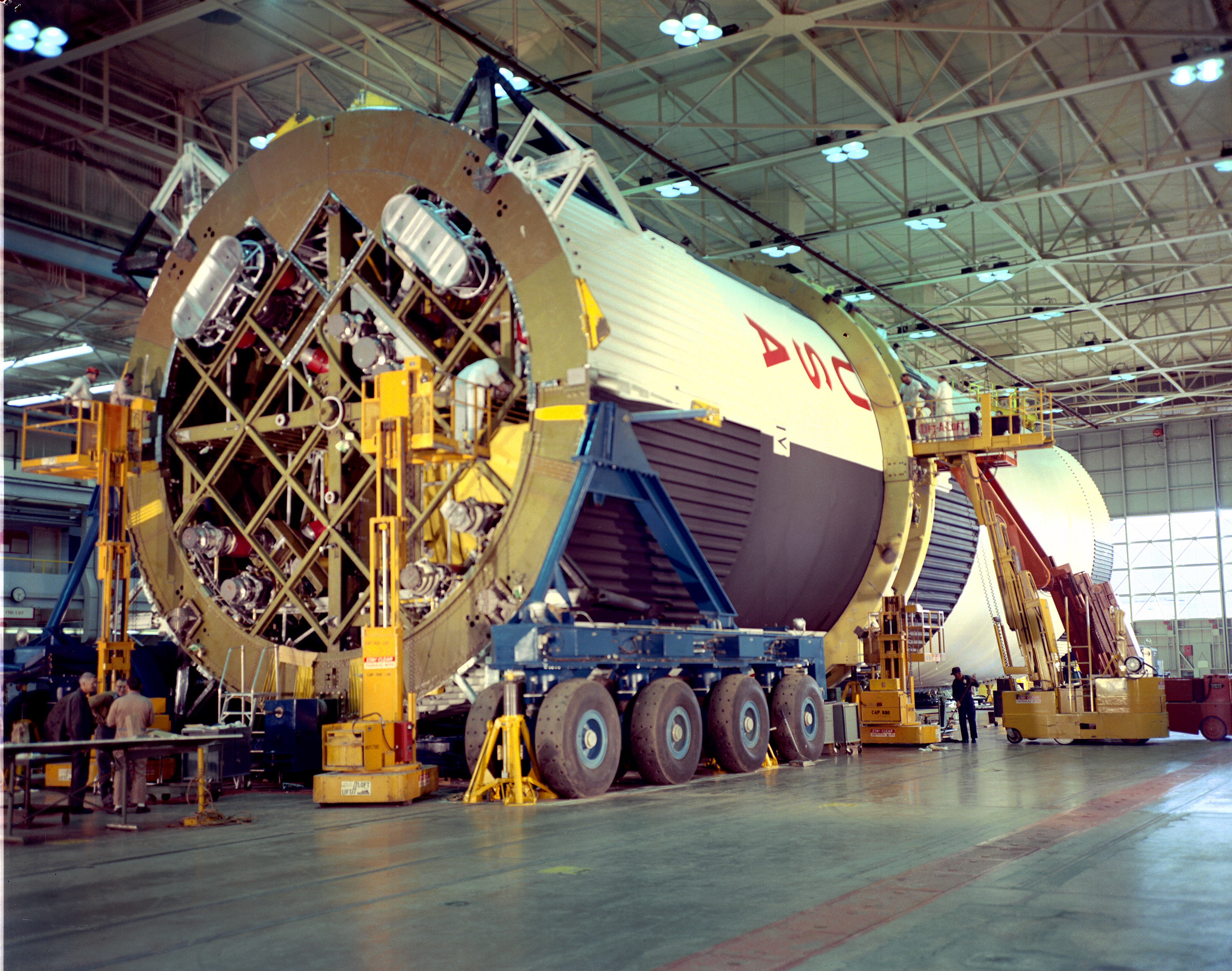 The fuel tank assembly of S-1C-T (the first stage of the Saturn V test vehicle) was mated to the liquid oxygen (LOX) tank at MSFC. Five Saturn V first stages (three for ground tests and two for flight) were fabricated at MSFC in Huntsville, Alabama. S-1C-T was test fired at MSFC with five F-1 engines installed, each developing 1.5 million pounds of thrust. In the Dynamic Test Stand at MSFC, the Saturn V test vehicle with the spacecraft on top, underwent more than 450 hours of shaking to gather data.